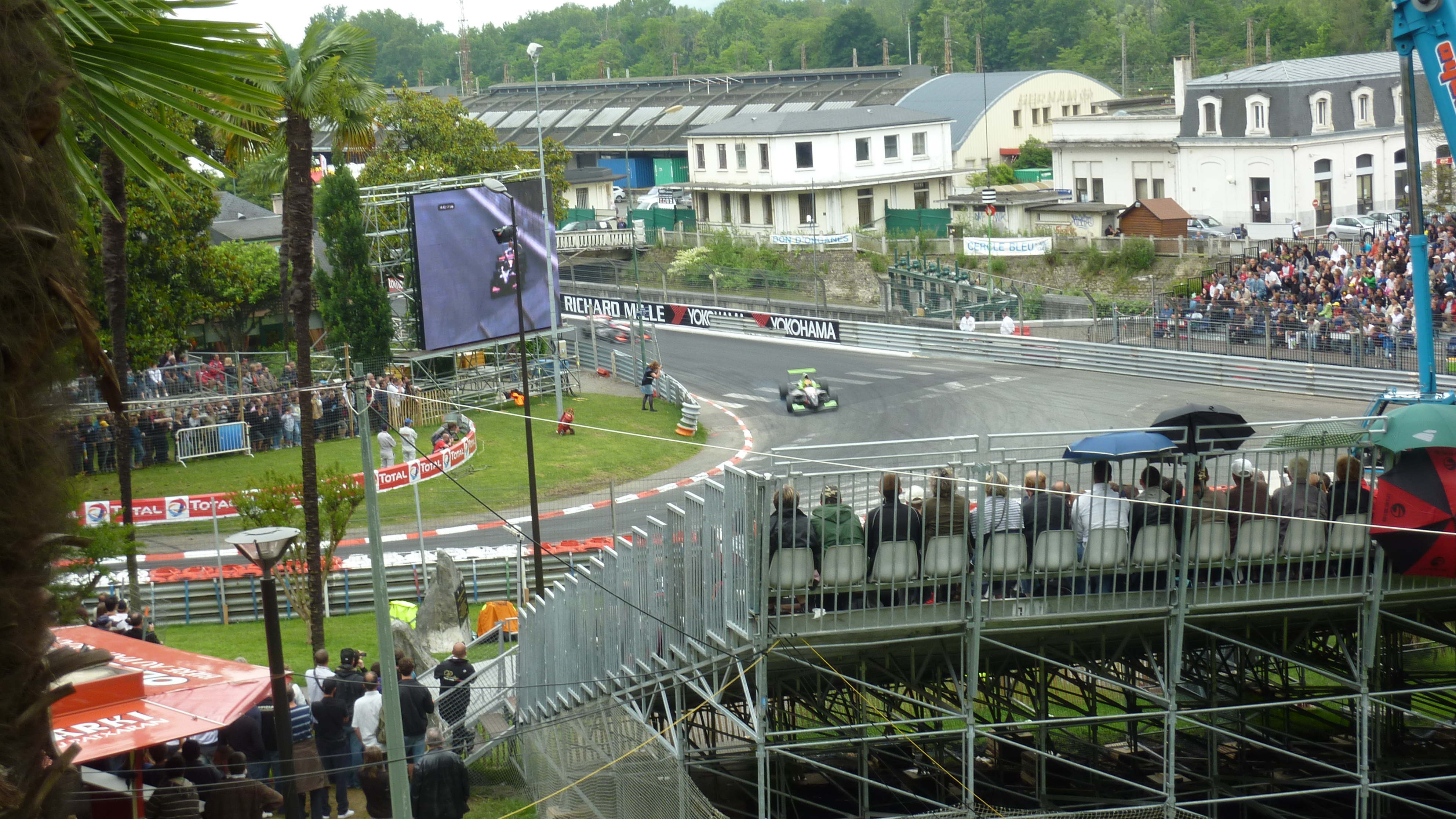 Race during 2011 Pau Grand Prix